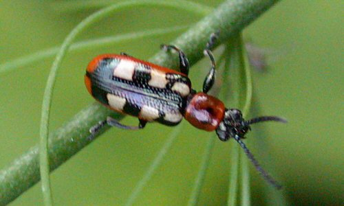 Crioceris asparagi (L.) (Coleoptera: Chrysomelidae) or Common Asparagus Beetle Photographed & uploaded by Keith Edkins, Cambridge, UK.